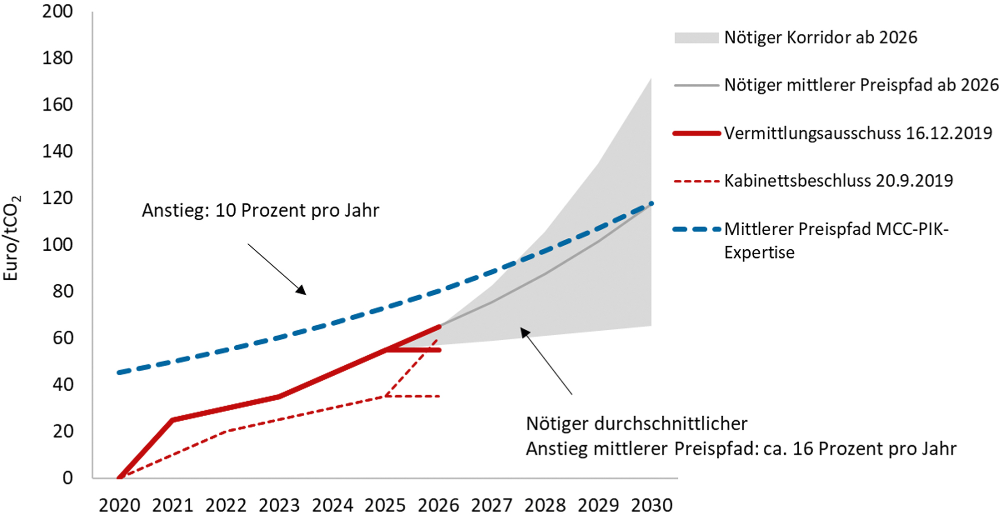 path of CO2-prices as planned in German emissions trading system (dotted red line: plans as of Sept. 2019; red line: plans as of Dec. 2019) and as required (shaded grey path and area)